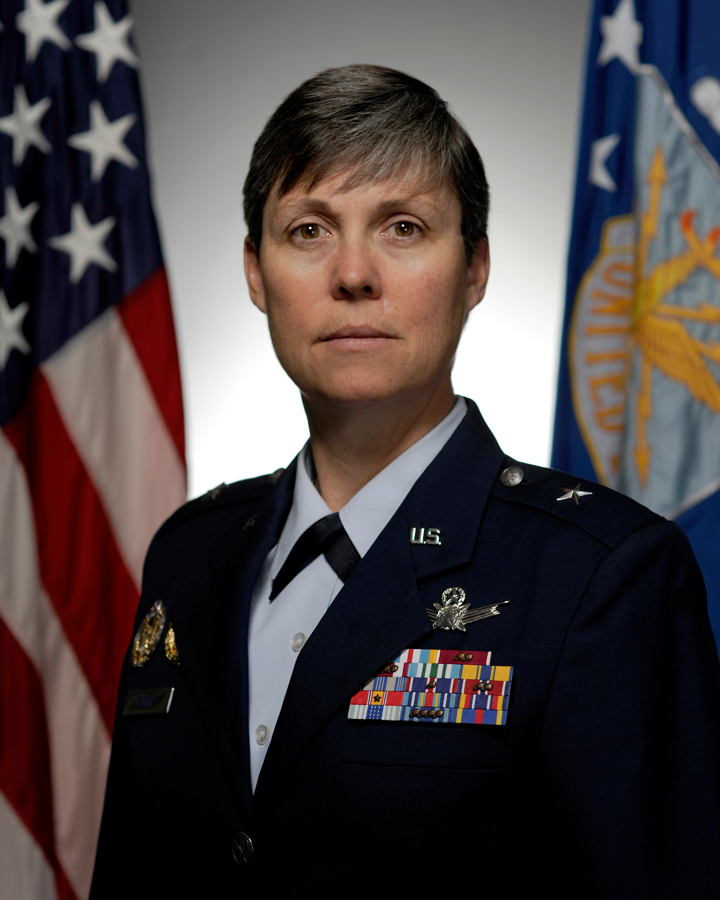 Djuric Brig. Gen. 2013